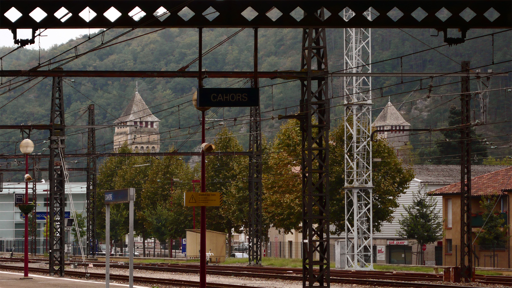 Cahors Railway Station